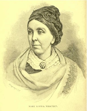 Sketched portrait of Mary Louisa Whately